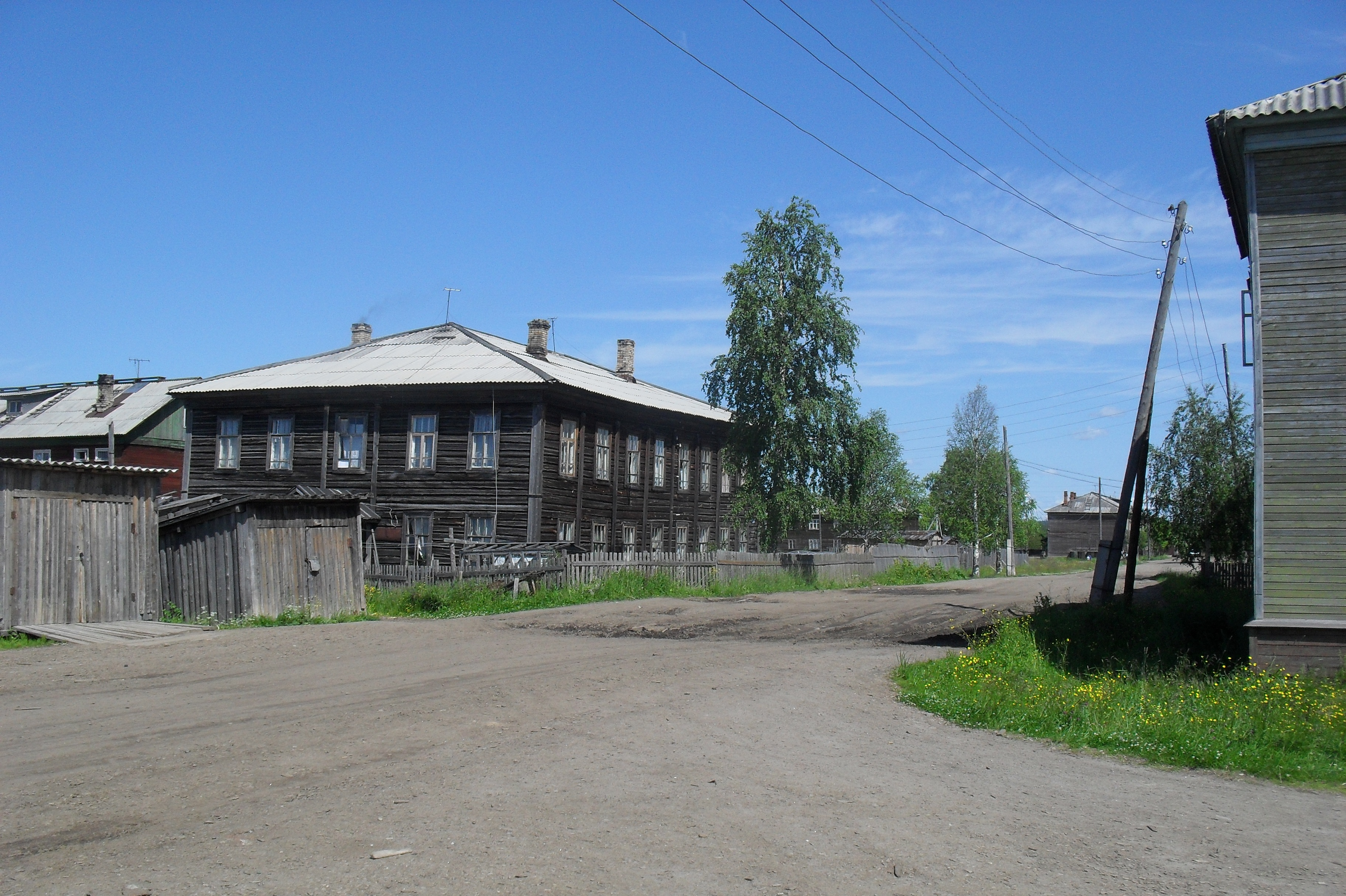 Pon'ga (Vorzogorskaya)